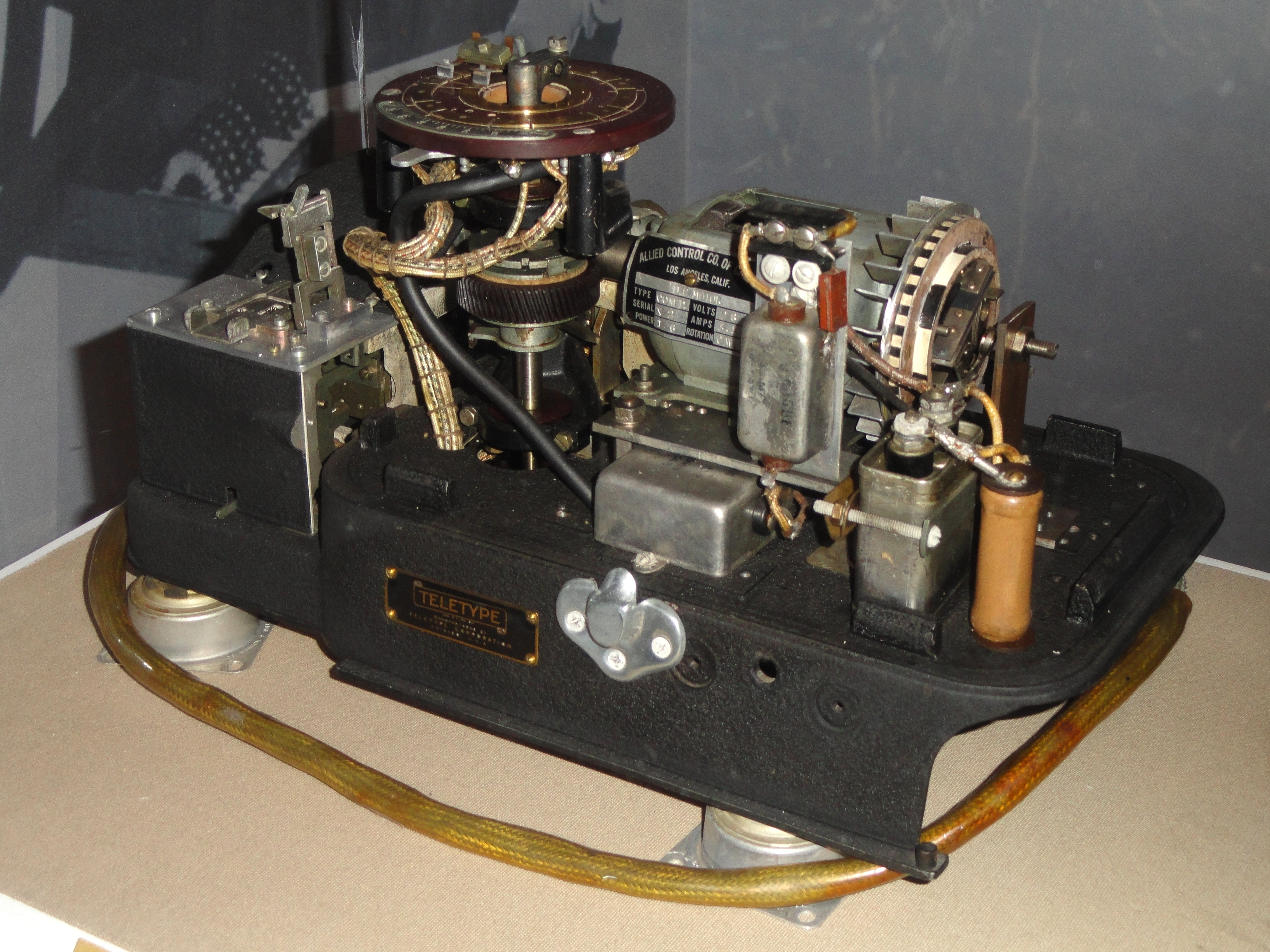 Exhibit in the National Cryptologic Museum, Fort Meade, Maryland, USA. All items in this museum are unclassified; items created by the United States Government are not subject to copyright restrictions.